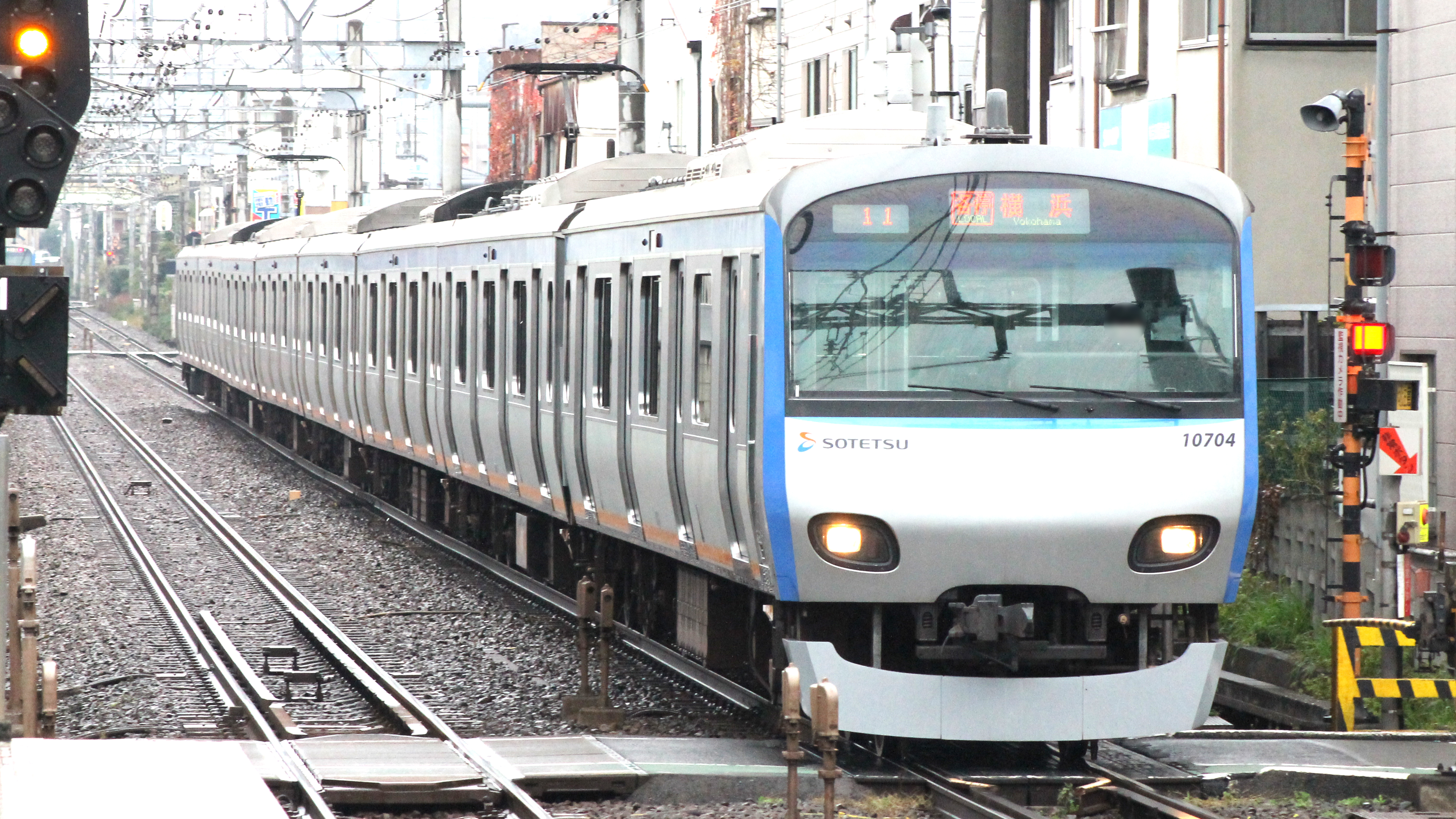 Sagami railway 10000 series 8-car EMU set 10704(the train's number on this pic is 10704) entering Kami-hoshikawa Station, Hodogaya-ku, Yokohama, Japan